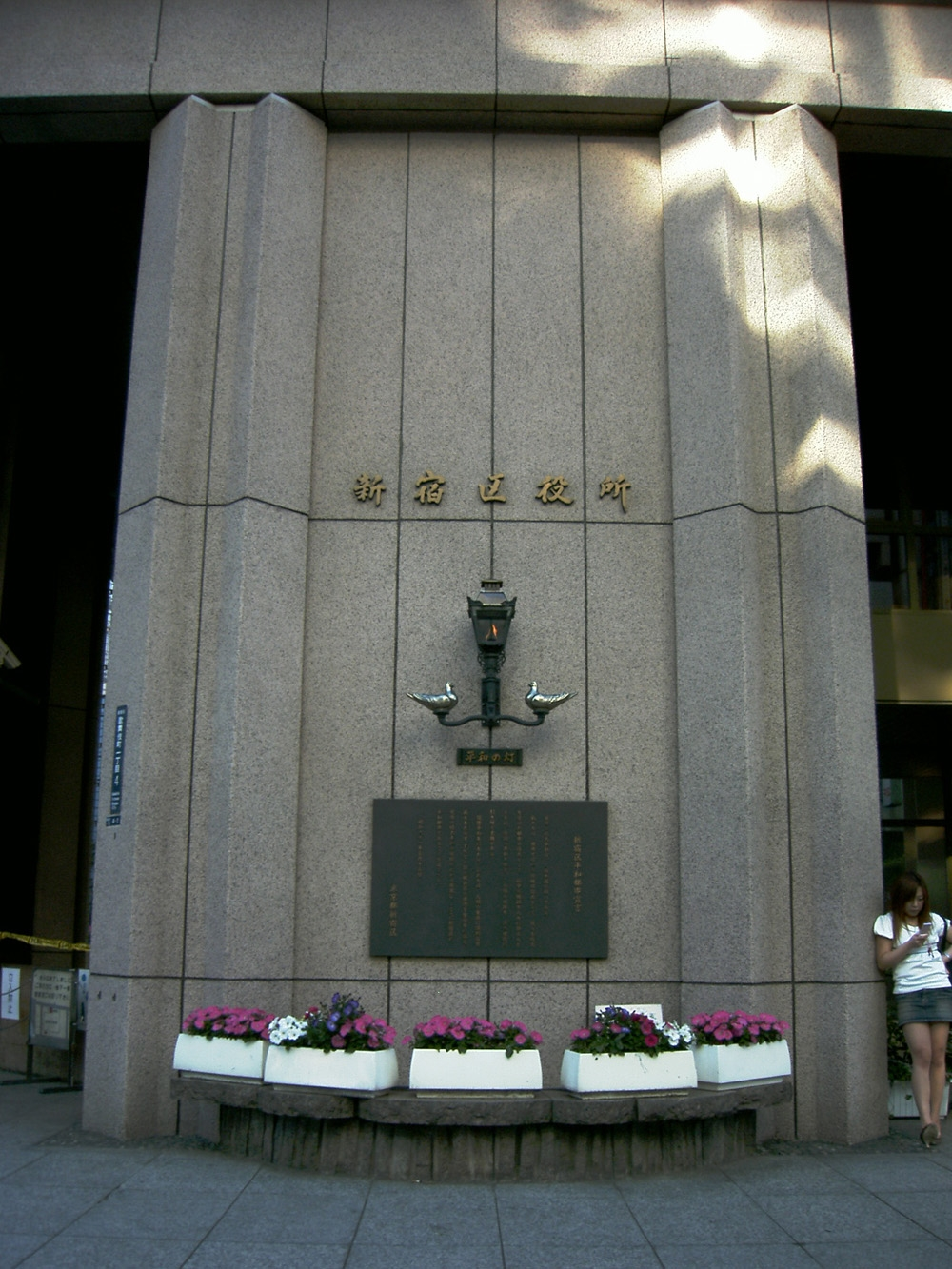 Shinjuku_City_Office Japan